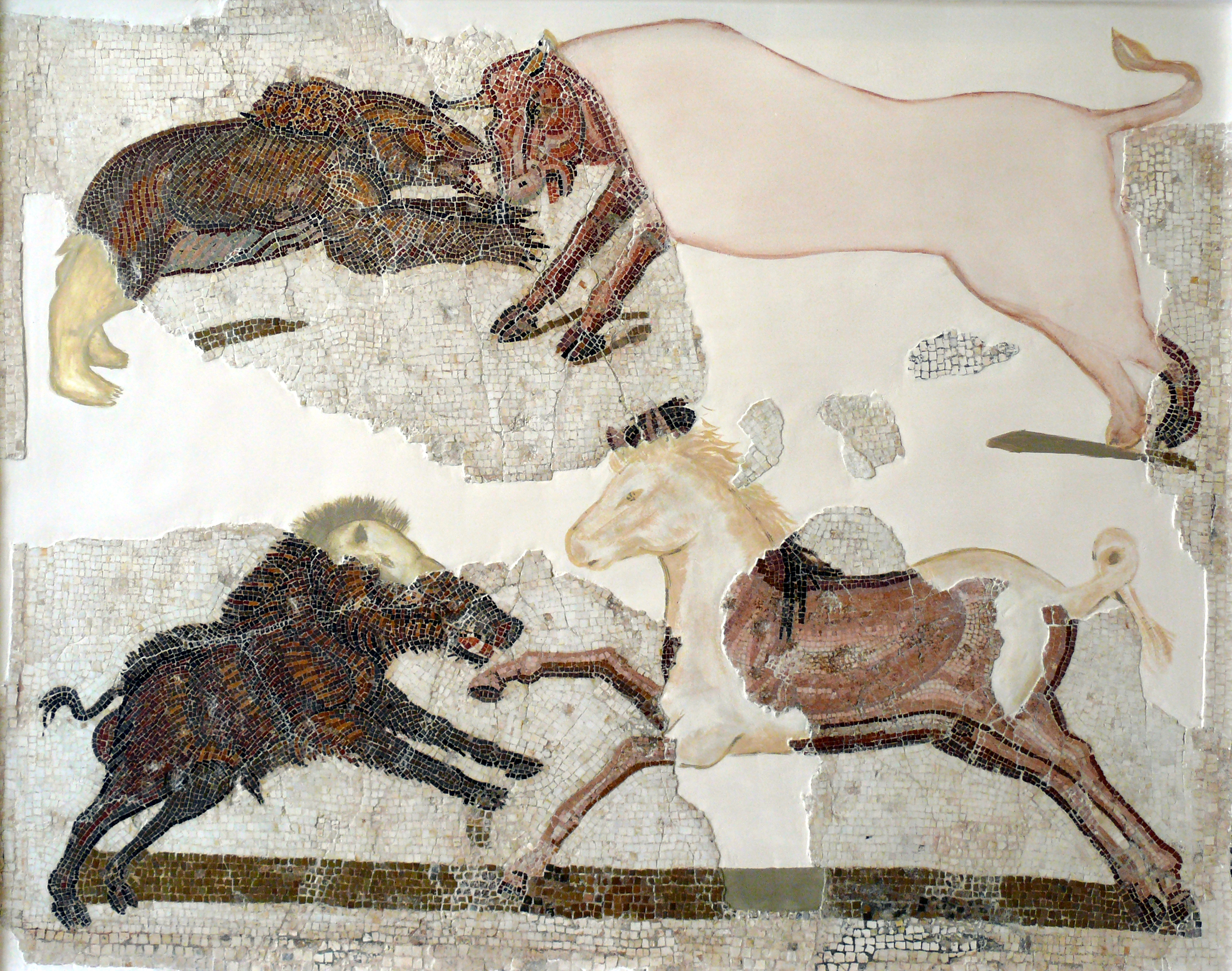 Mosaic with two scenes of fighting animals: a bull facing a bear and a boar facing a foal. End third century Roman house, Sousse Archeological Museum of Sousse